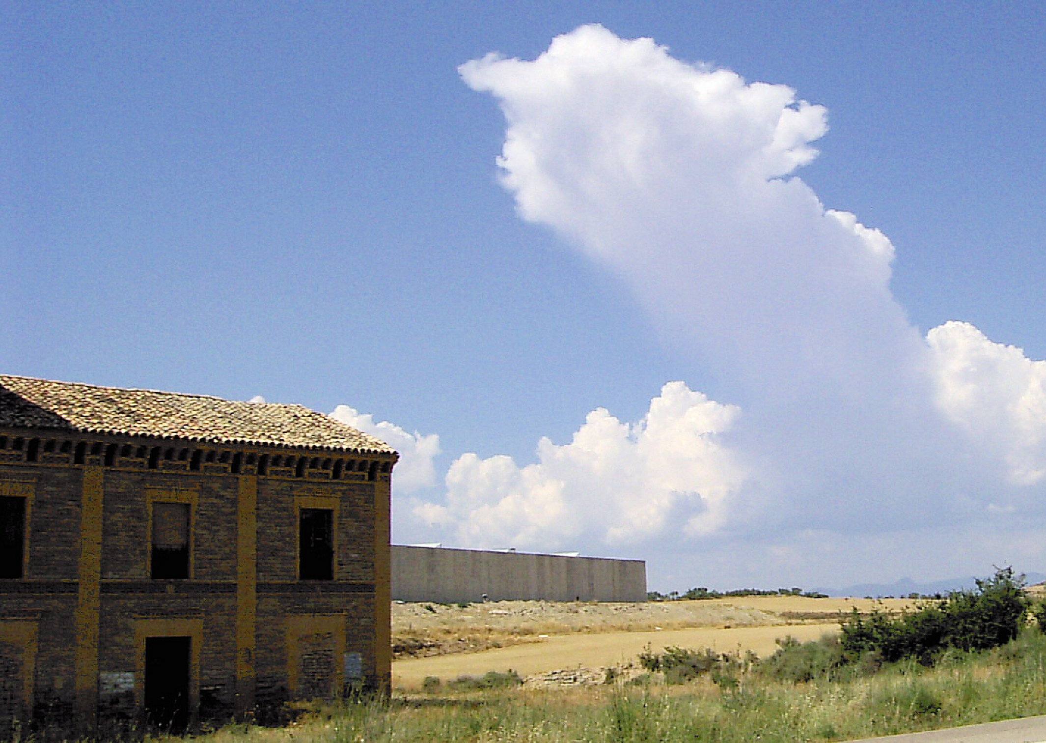 Cumulonimbus with fleeing anvil, near Huesca, Spain